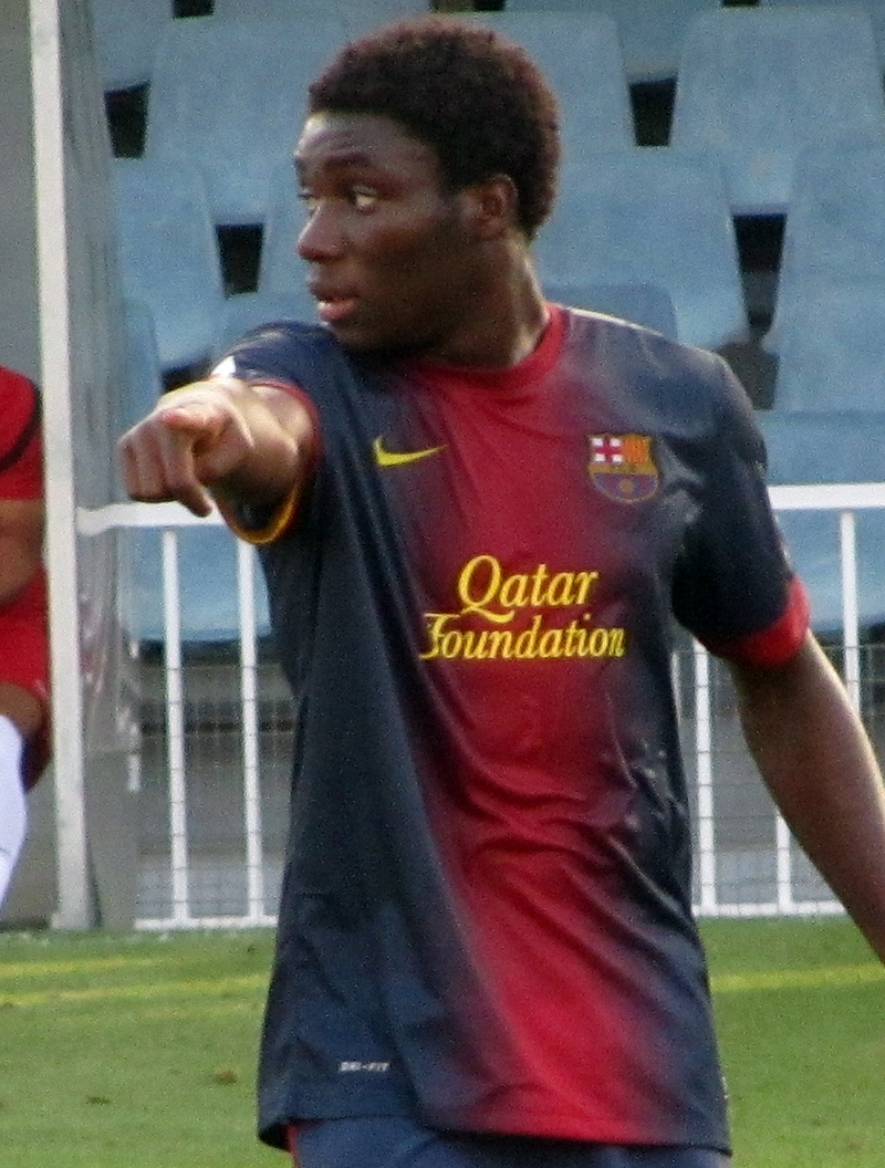 FC Barcelona B player Jean Marie Dongou Tsafack (a.k.a. Dongou) in 2012-13 home kit. Foto realizada por Javier Segura (@castroquini)